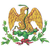 Interpretation of Mexican Eagle 1867